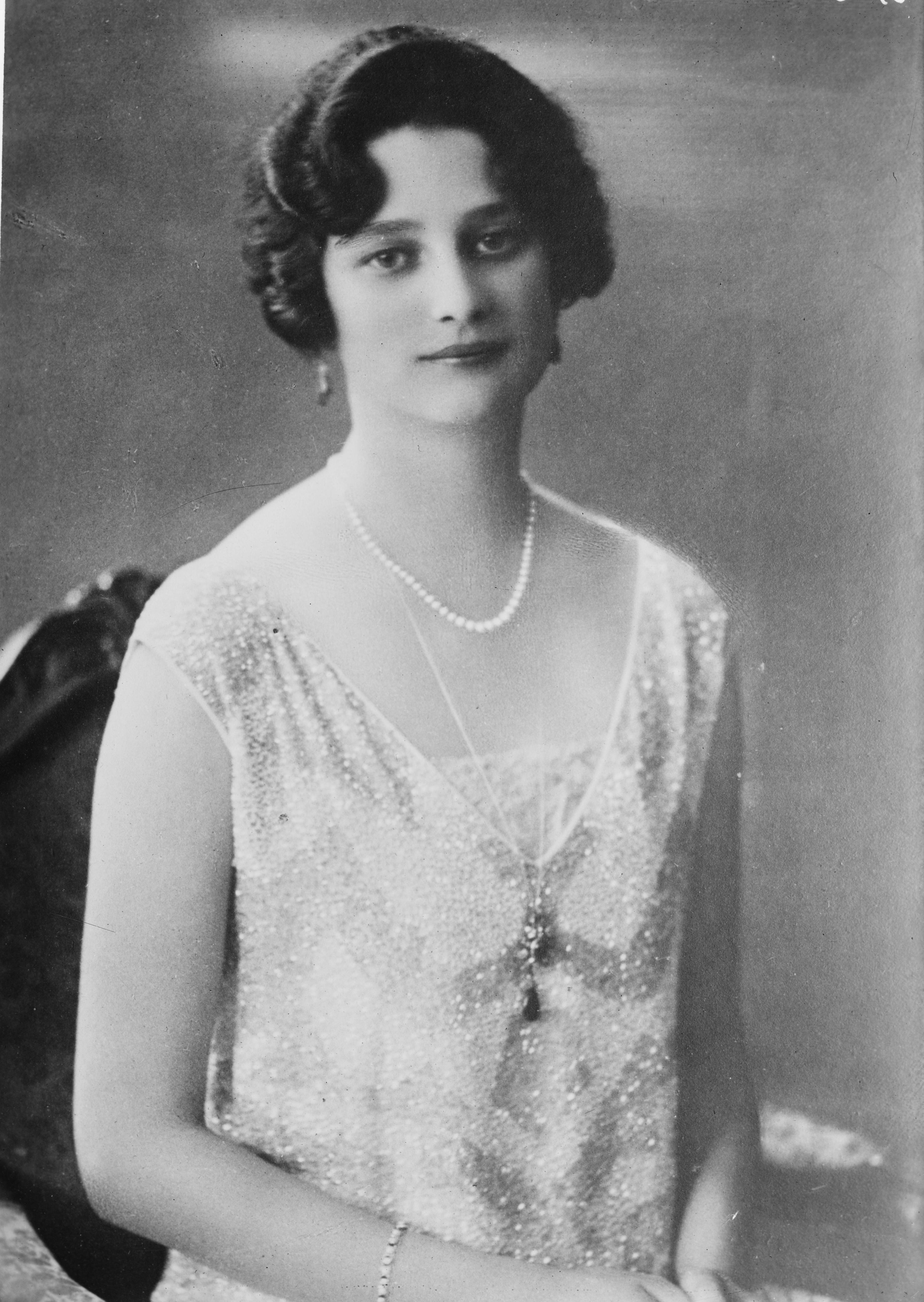 Astrid of Sweden (1905-1935), princess of Sweden, queen of Belgium